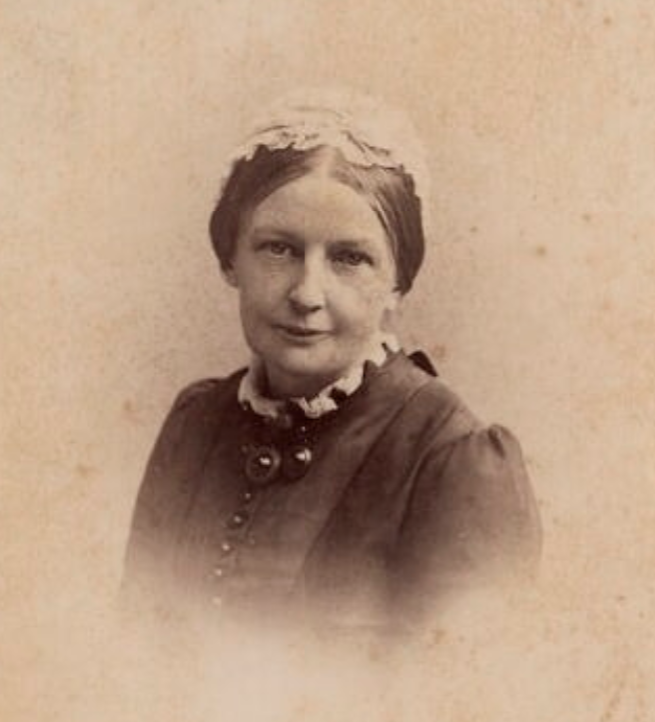 Carte de visite portrait of Frances Lucy Arnold (née Wightman) (1825–1901), wife of Matthew Arnold.